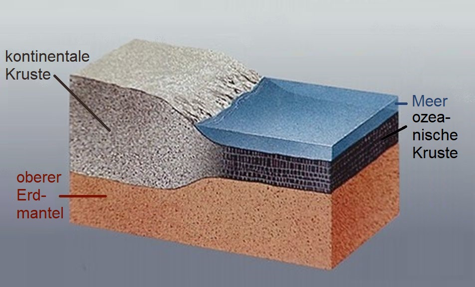 Graphic of the earth's ontinental and oceanic crust